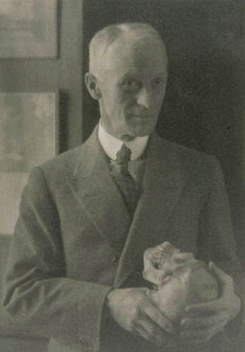 Portrait of Harvey Cushing by Doris Ullman, 1920s